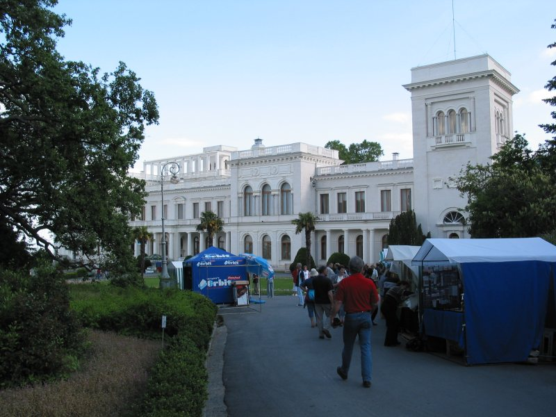 Livadia Palace